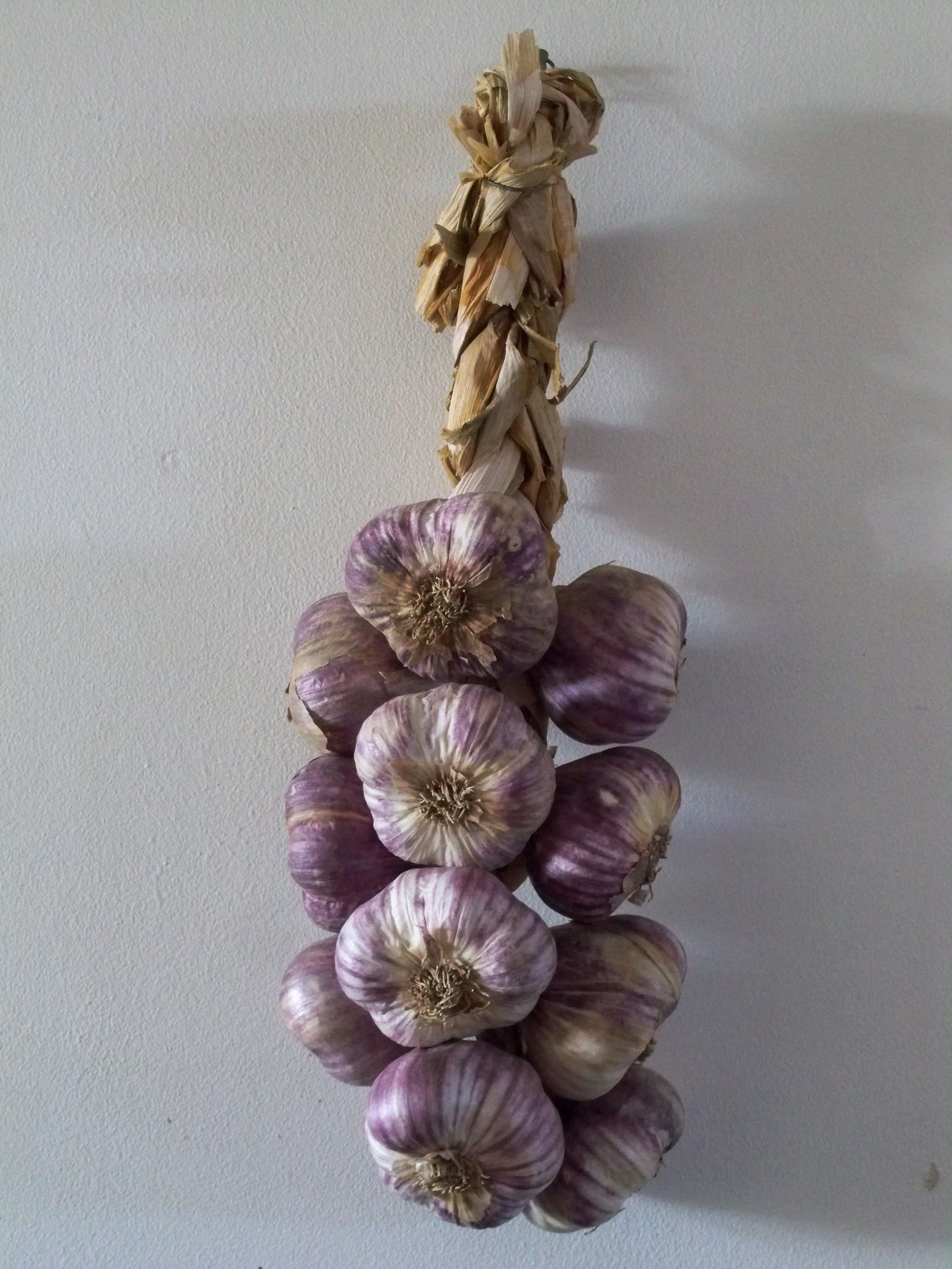 Garlic